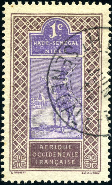 Upper Senegal and Niger 1c stamp of 1914